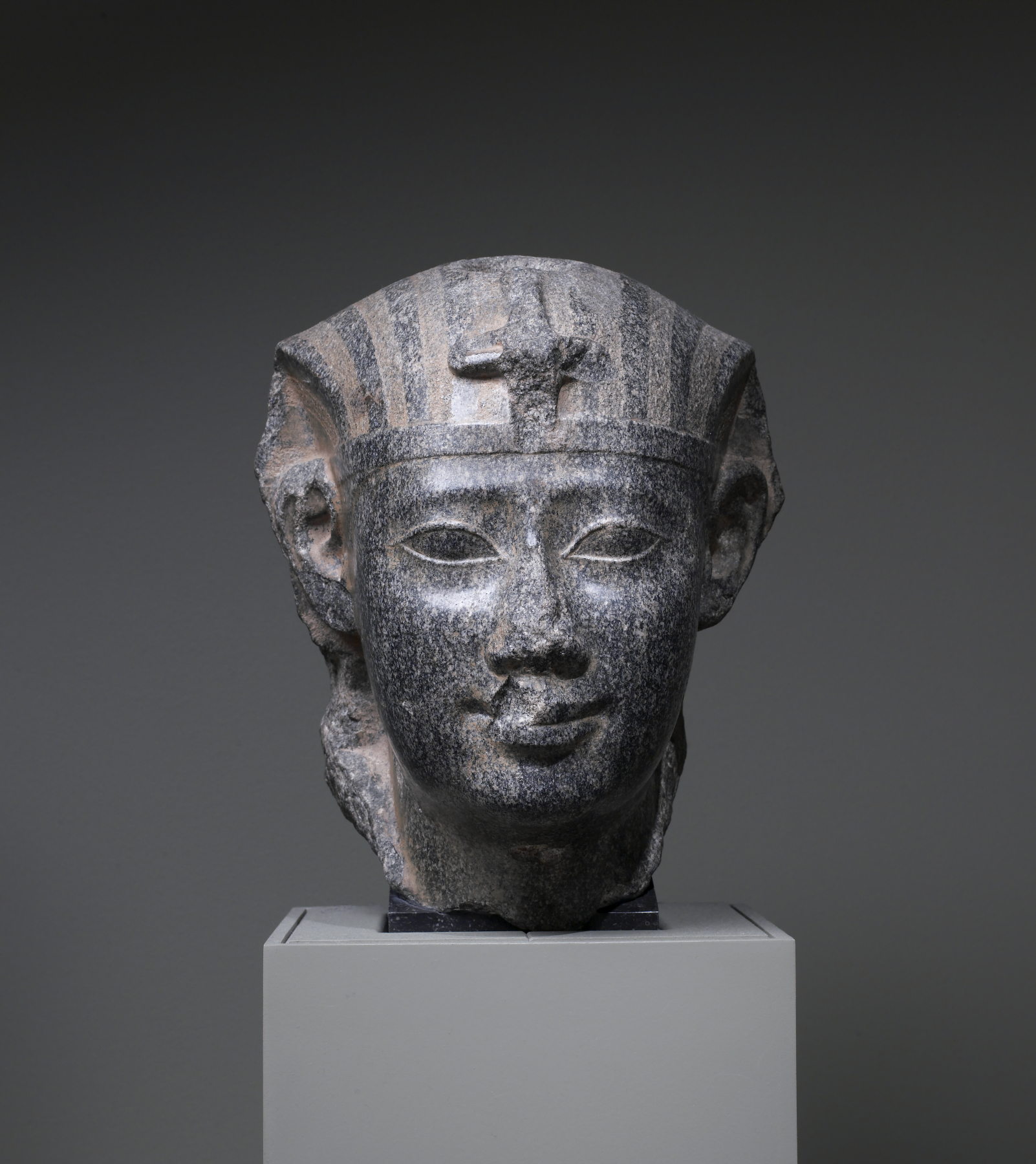 In 332 BC, Alexander the Great freed Egypt from Persian control and made it part of his growing empire. One of his generals, Ptolemy Lagus, was sent to Egypt to serve as governor after Alexander's sudden death in 323 BC. Ptolemy eventually crowned himself king and founded the Ptolemaic Dynasty. One of the early rulers of this Dynasty is represented in this elegant, life-size head. The Ptolemaic rulers were sensitive to the political needs of their diverse subjects. Therefore, royal portraiture is mainly of two types, one in strictly Egyptian style, like this head, and the other purely Greek.